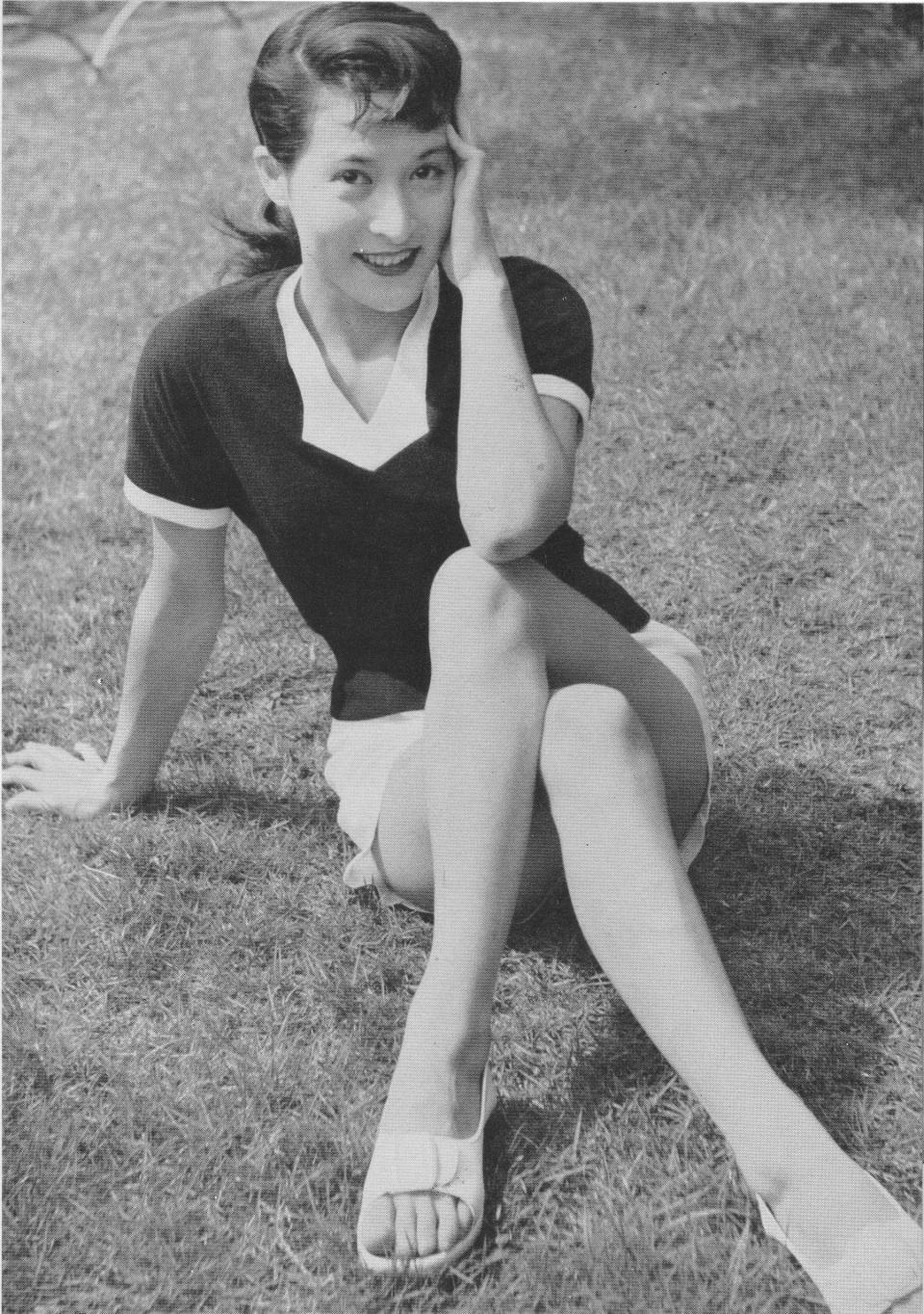 Miki Sanjo (Actress from Japan). taken in 1955.